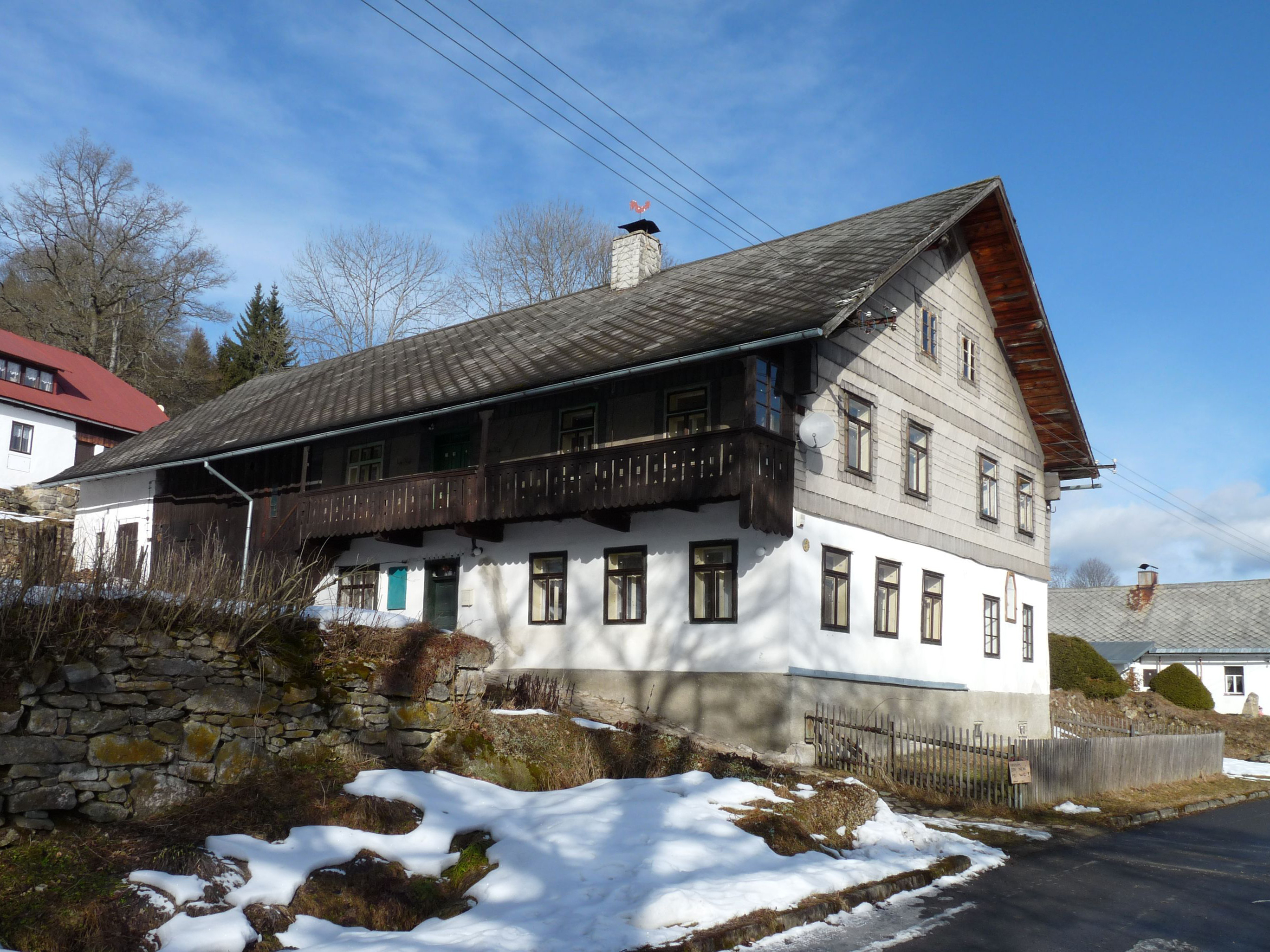 House No 9 in the village of České Žleby, part of the municipality of Stožec, Prachatice District, South Bohemia, Czech Republic.